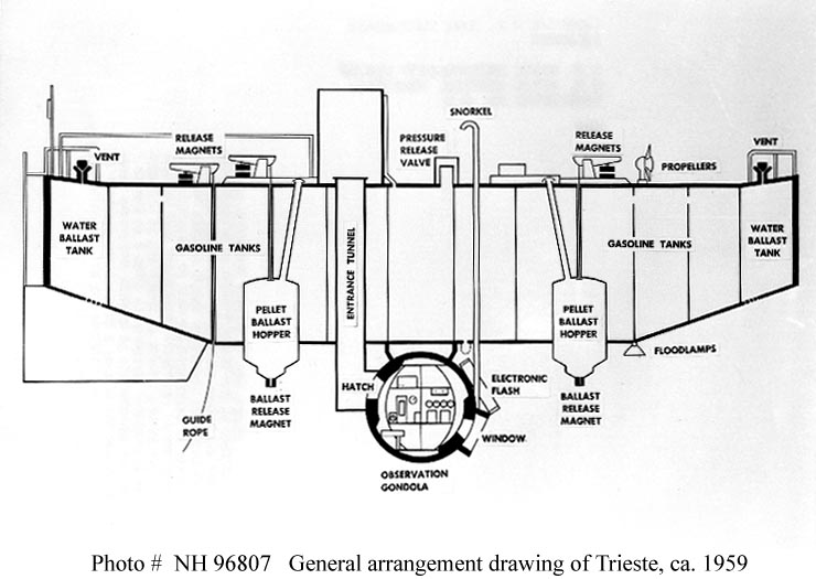 Drawing of the batyscaphe Trieste.